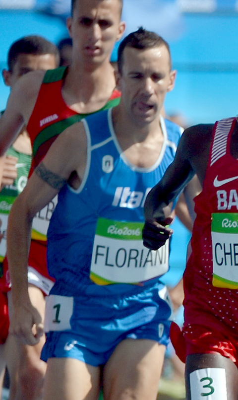 Yuri Floriani in the first of three qualifying heats in the men's 3,000-meter steeplechase on Aug. 15 at the 2016 Rio Olympic Games in Rio de Janeiro.